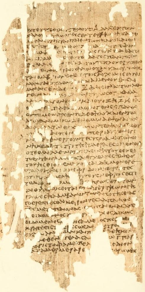 scholia from Homeric Illiad XXI